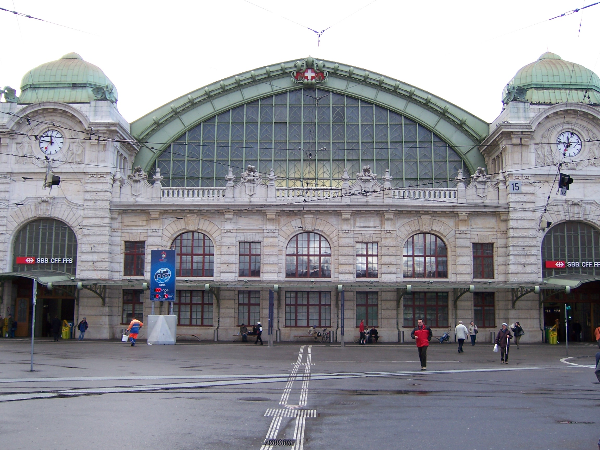 Front of Basel SBB train station